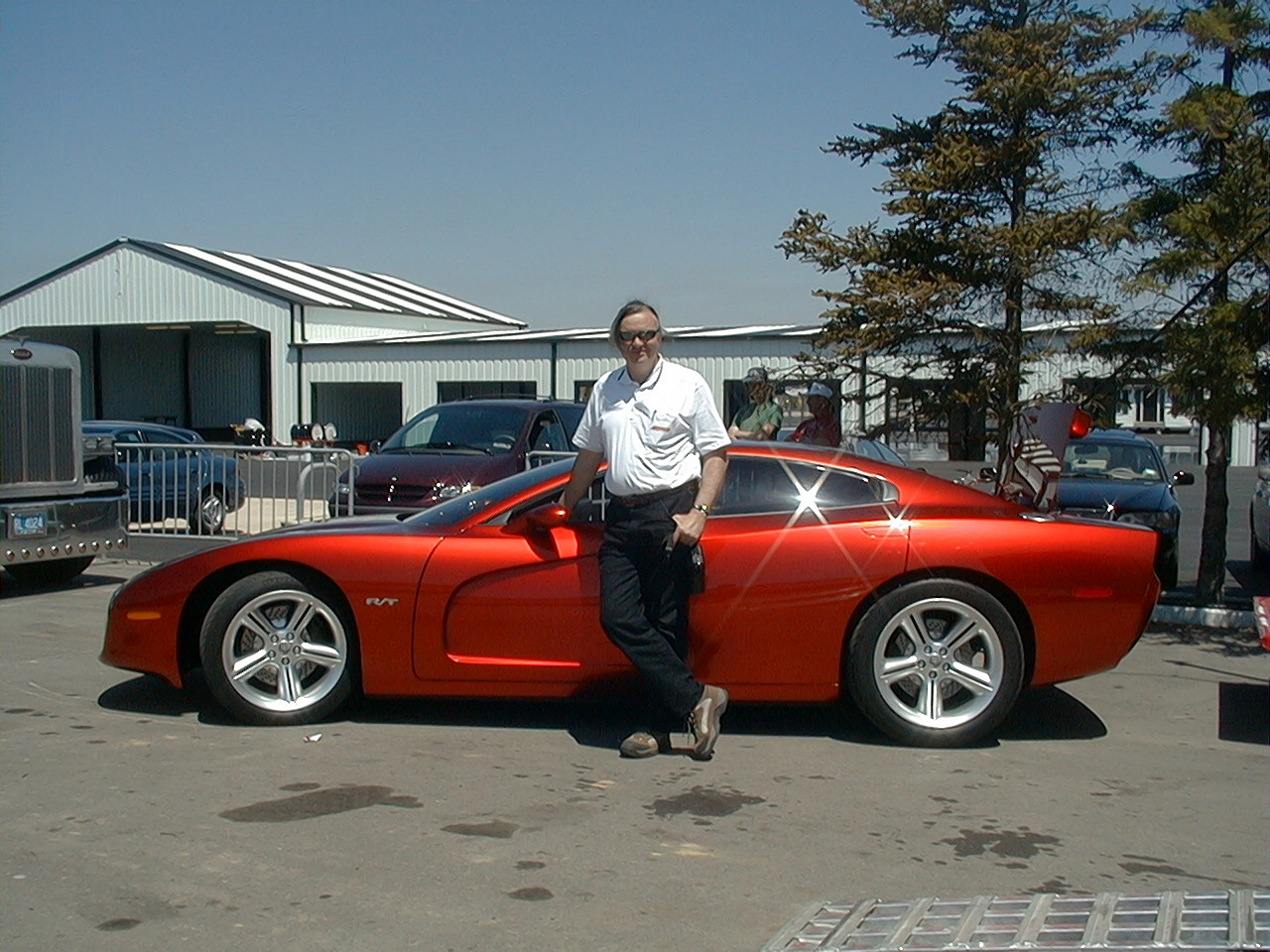 1999 Dodge Charger R/T CNG-powered show car at Pocono Raceway. Taken with my early Agfa digital camera, self-timer, at a Chrysler press event at Pocono Raceway. I went for a ride in the car but was not allowed to drive it.